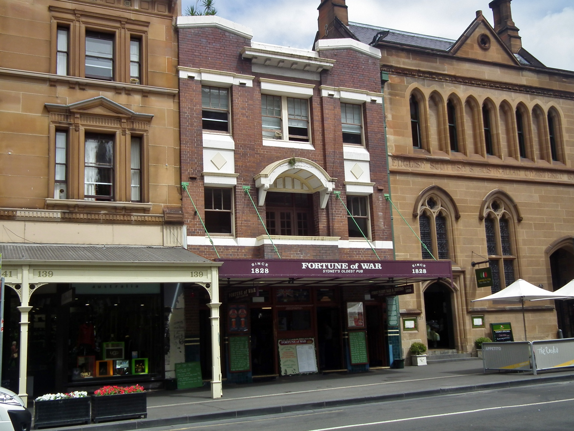 Fortune of War Hotel - The Rocks NSW. The current building was erected in 1921, but the name dates to a previous building, and the licence dates to 1828. There is evidence that the Fortune of War was operating as a public house prior to the issue of the licence. It is claimed to be the oldest continually licenced pub in Sydney. When liquor licences became compulsory in 1830 the Fortune of War was granted licence number 1. .au/2011/03/30/sydneys-oldest-pub/